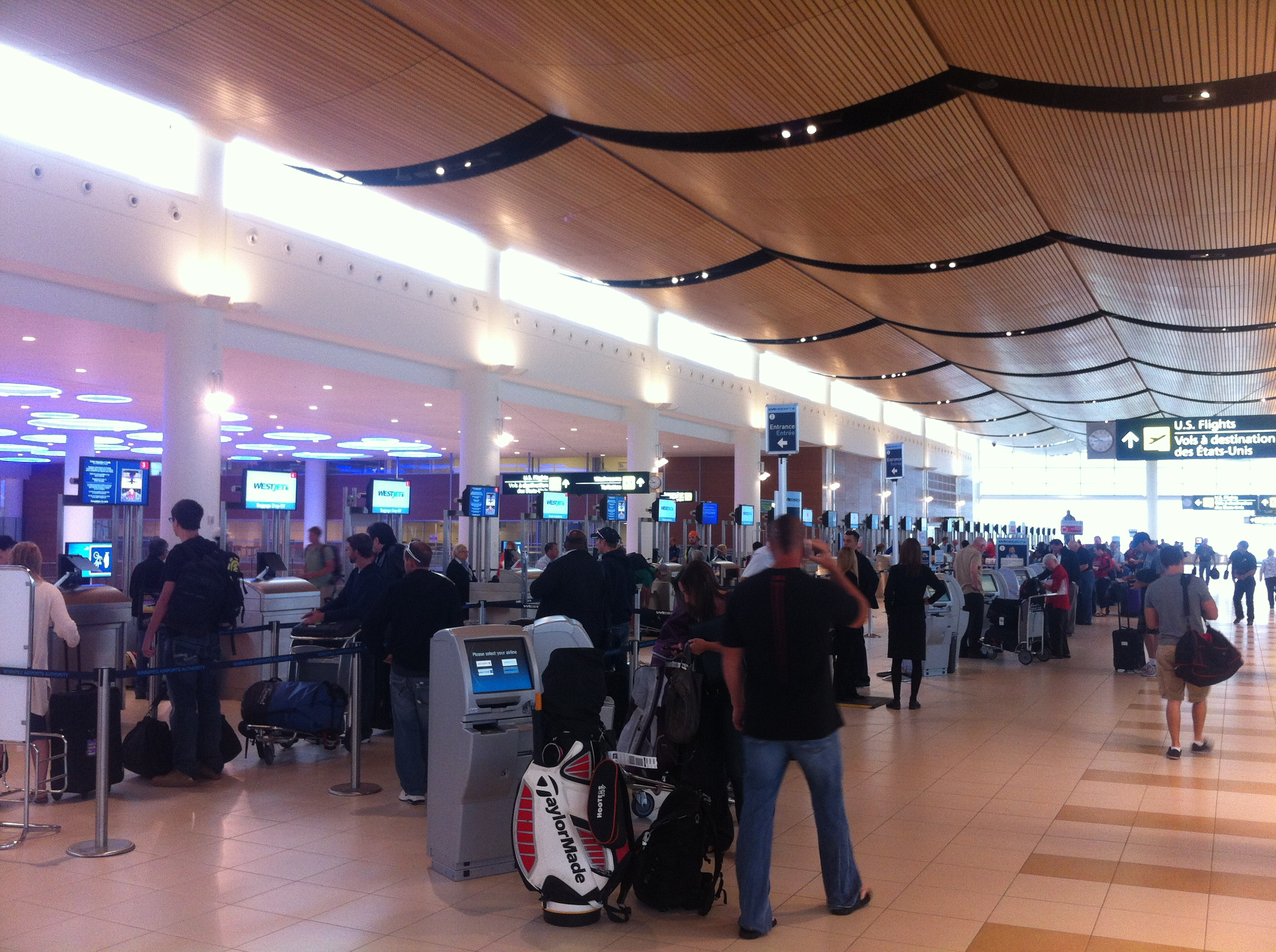 Airline Check-in area at Winnipeg International Airport